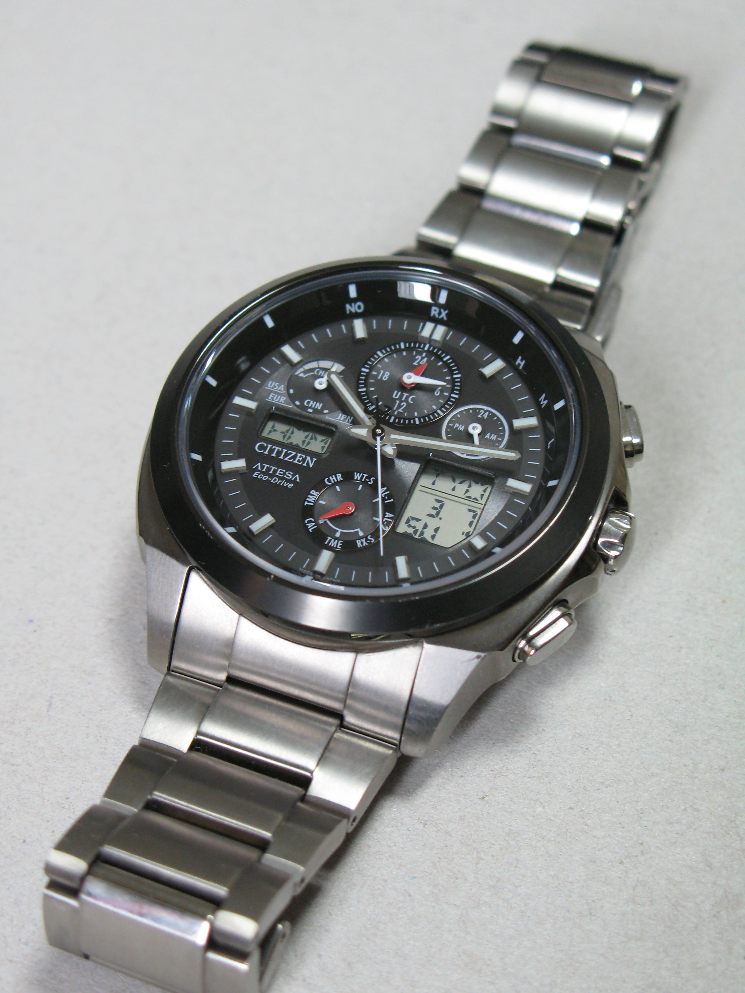 CITIZEN ATTESA Eco-Drive ATV53-3023 Specifications Movement: Eco-drive with 3,5 years power saving reserve, Radio Controlled time reception (North America, Europe, China, Japan), Accuracy without radio reception +/-15 sec/month Featuring: 10 ATM water resistance, LED, Chronograph, Timer, World Calendar, World time alarm, World time, Charge warning function, Power saving function Case: Duratect Titanium, Bracelet: Duratect Titanium Crystal: Non-reflective coated sapphire crystal Size without Crown: 41 mm Thickness/weight: 13.0 mm/104 g